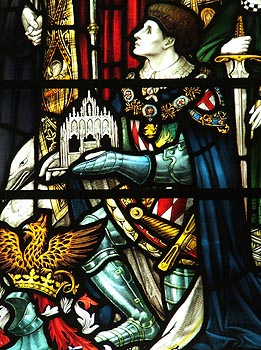 Thomas Montagu, 4th Earl of Salisbury